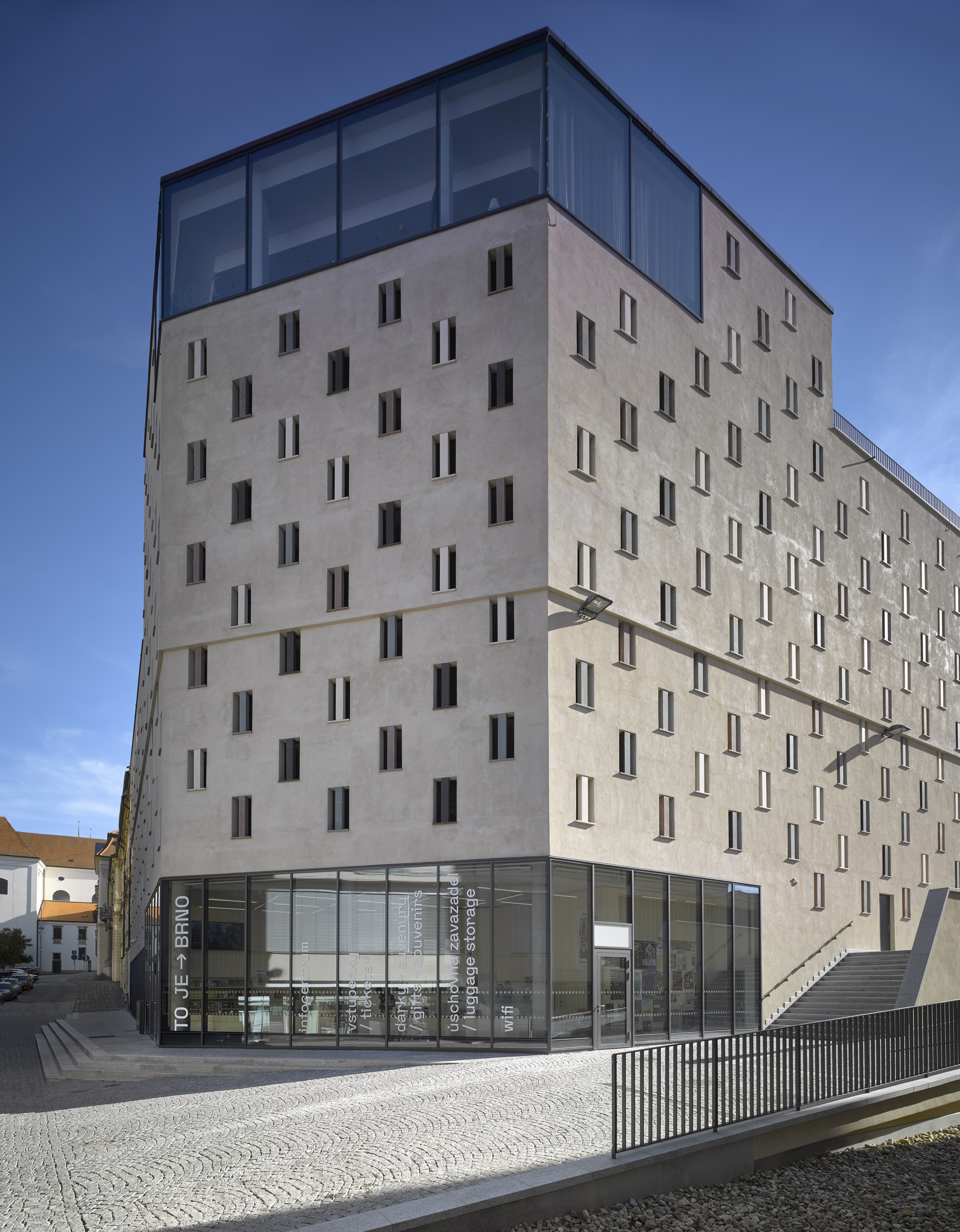 Domini Park Brno